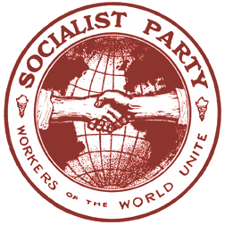 Logo of the Socialist Party of America (1901-1973) Scanned from the cover of a pamphlet published by the SPA in 1915. Published in USA prior to 1923, public domain. Original in Tim Davenport collection, scanned by me, no copyright claimed.